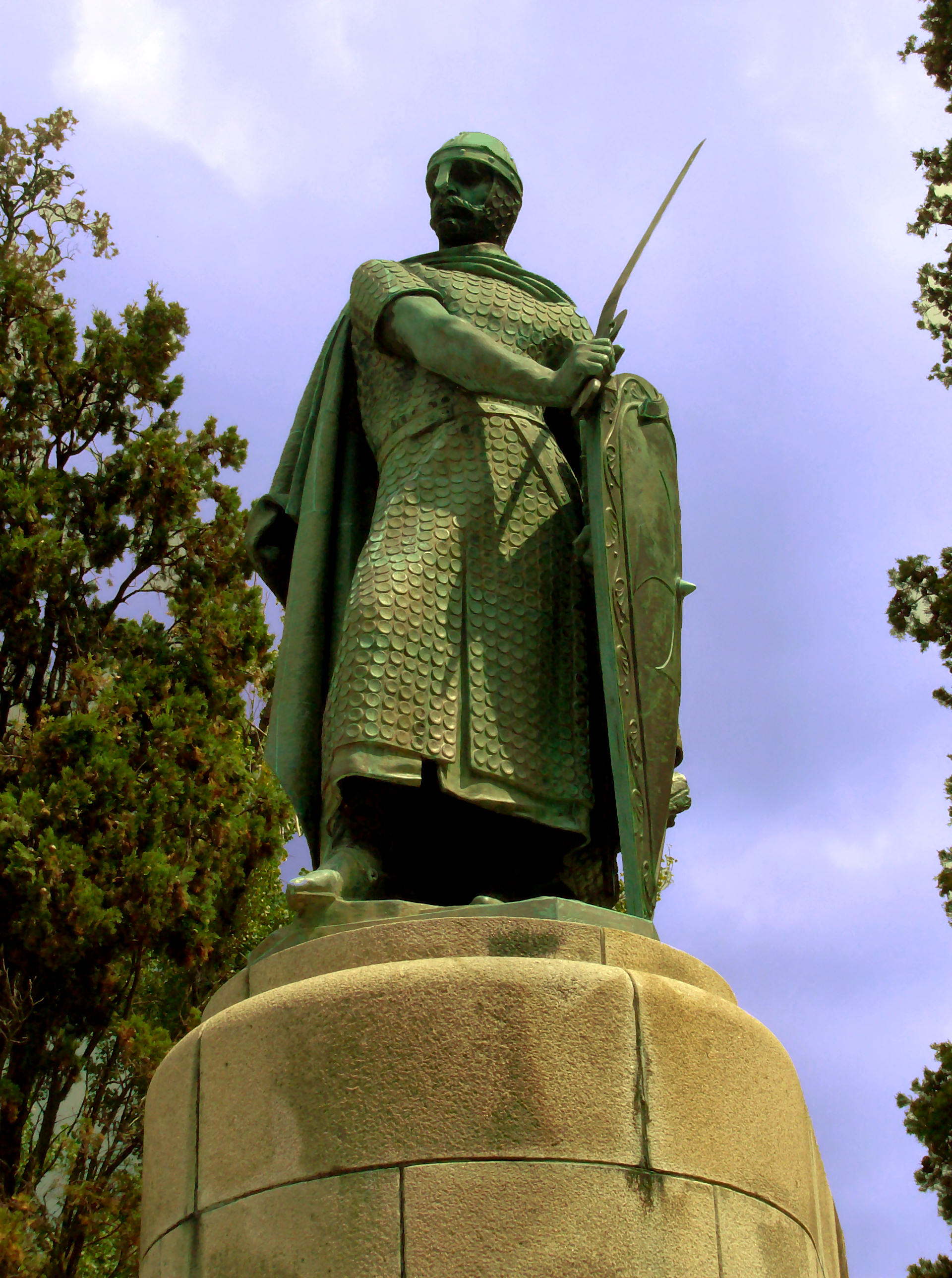 Dom Afonso Heriques - Afonso I of Portugal